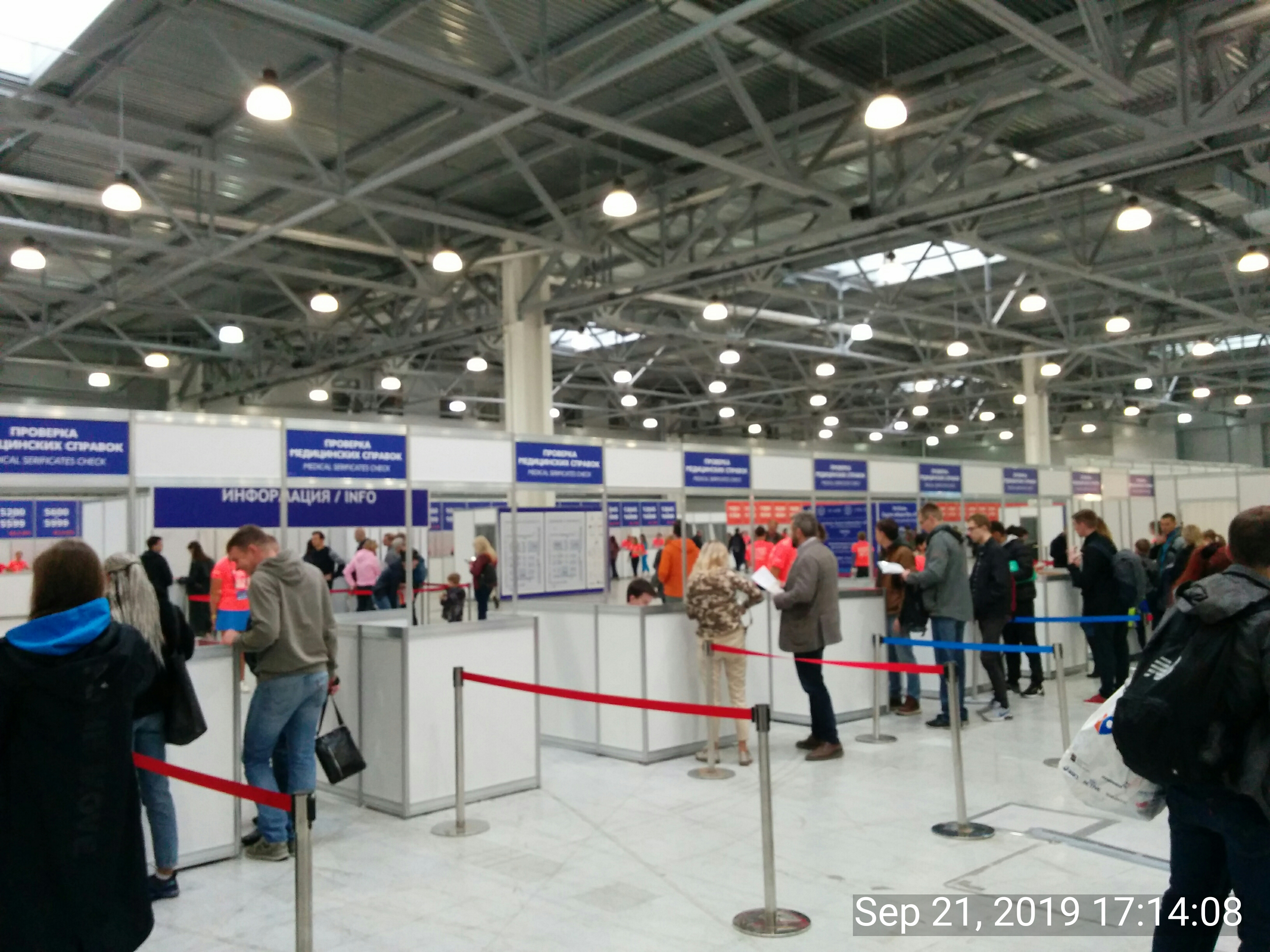 Registration for Moscow Marathon 2019. September 21, 2019. Moscow, Russia.